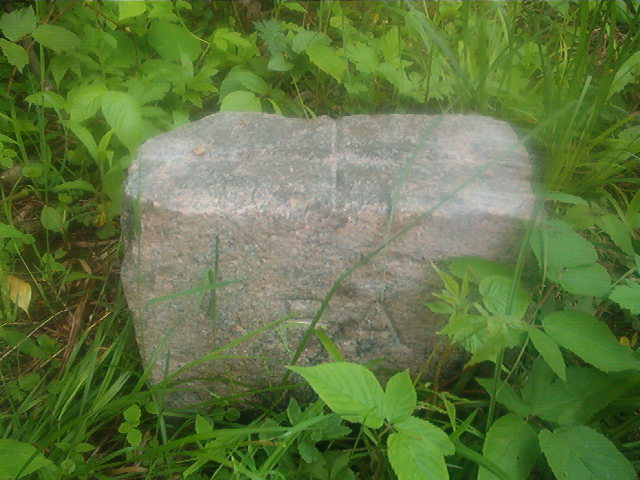 I, David Emke, created this image and hereby release it into the public domain.